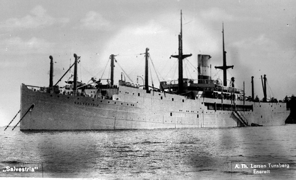 Chr. Salvesen's whaling factory "Salvestria", ex. S/S Cardiganshire (1913)